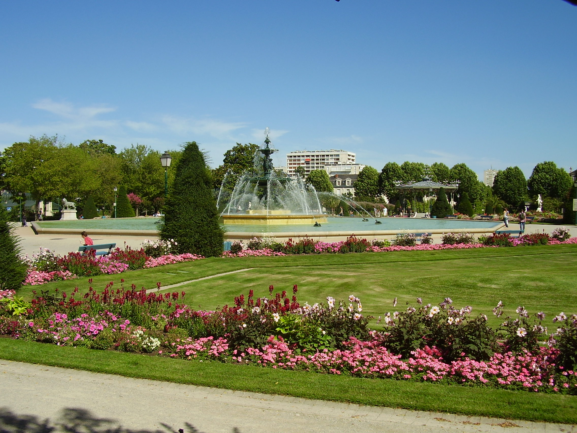 The Mail (mall, as a promenade) fountain, Angers, Maine-et-Loire, France.